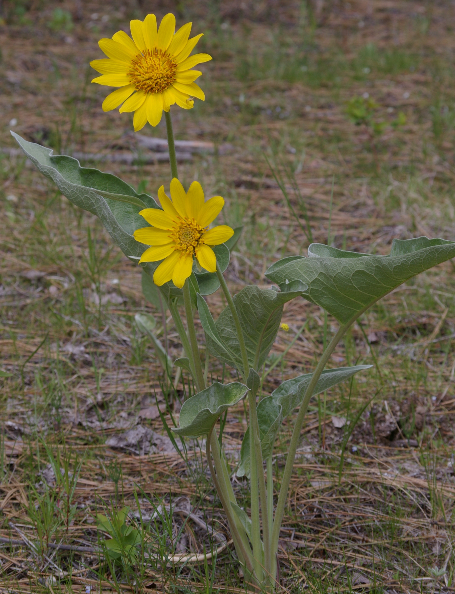 Balsamorhiza sagittata (Arrowleaf balsamroot) plant